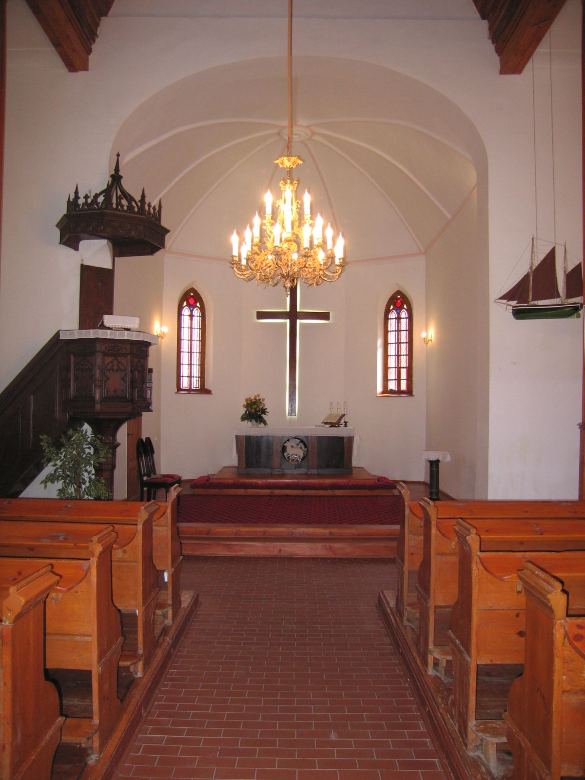 Evangelical-Augsburg Church in Słupsk - altar